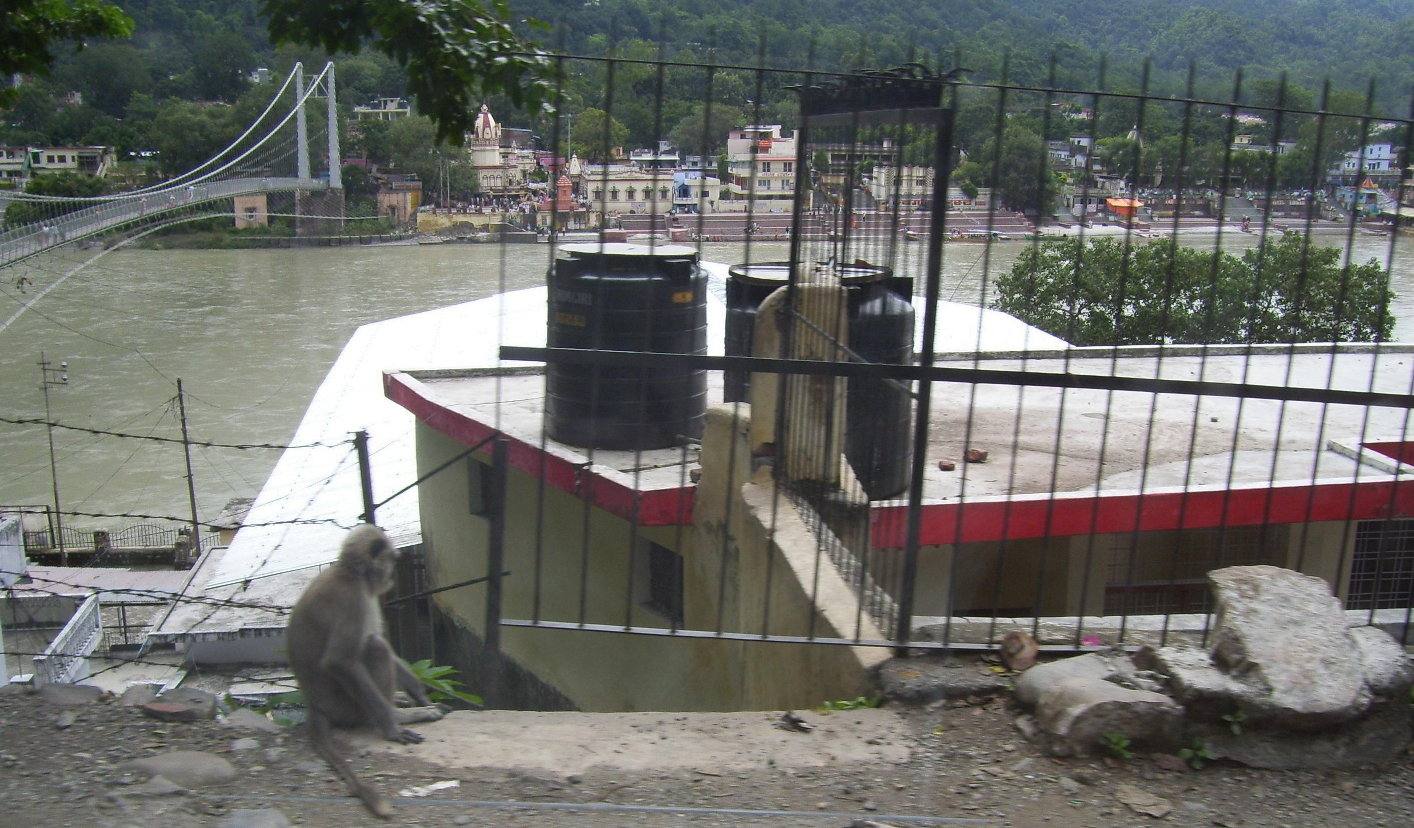 a Hanuman langur (the image is incorrectly labeled Rhesus, which is what I had originally thought the monkey was) on the banks of the Ganges in Rishikesh, India